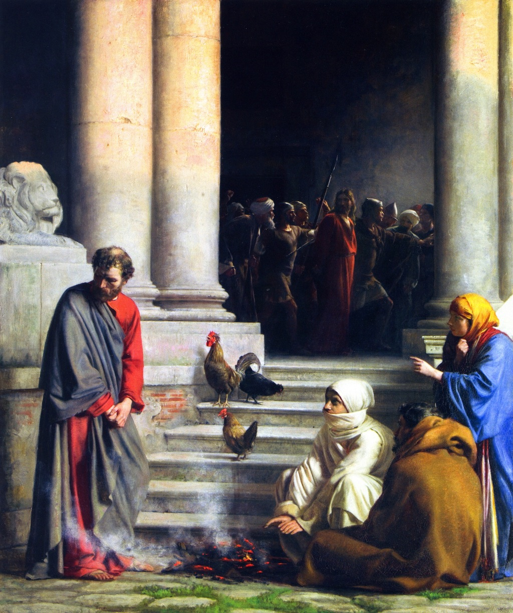 Peter's denial